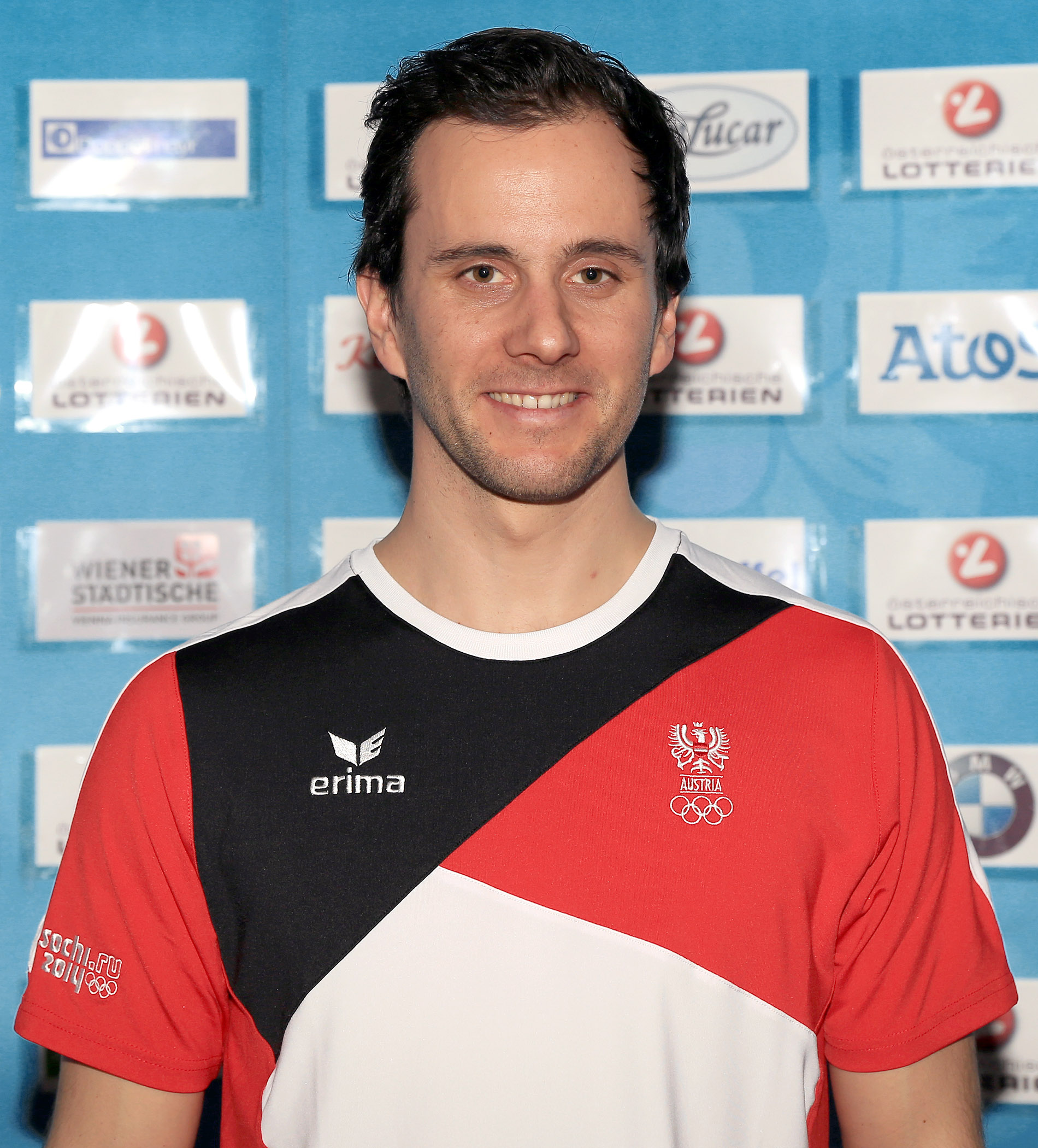 Philipp Schörghofer (alpine skiing) at the outfitting of the Austrian team for the 2014 Winter Olympics (Hotel Marriott in Vienna, Austria.